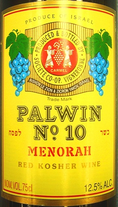 Palwin No. 10 is a mellow dessert wine with a pleasant bouquet and rich taste.